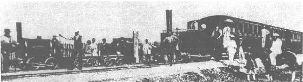 Opening of the Woosung Railway in Shanghai in July 1876. Pioneer and Heavenly Dynasty locomotives visible.